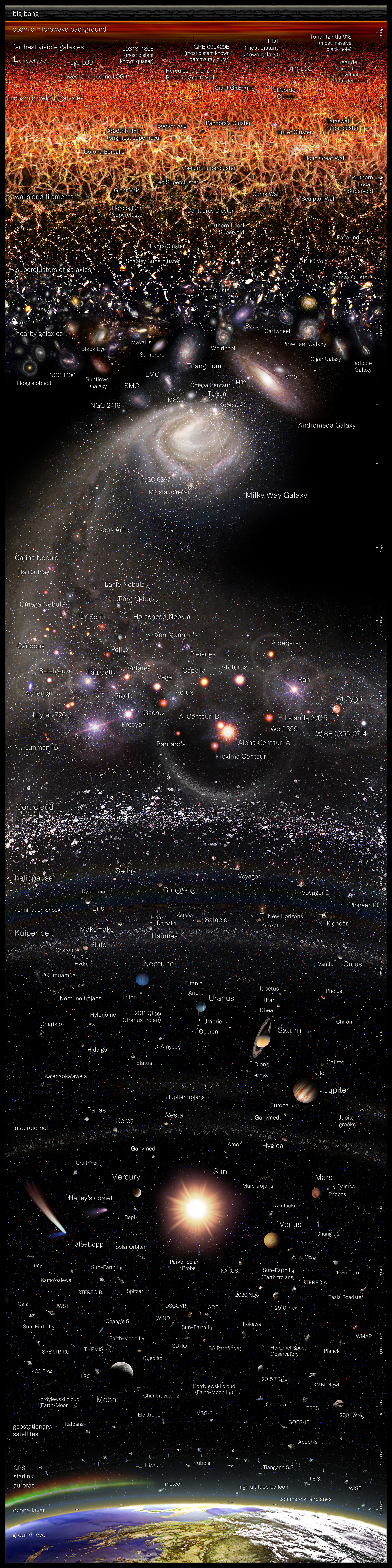 Logarithmic map of the observable universe with the notable astronomical objects known today. From down to up the celestial bodies are arranged according to their proximity to the Earth. In the lower border, Earth and near-Earth objects are depicted. In the higher border, the most distant observed objects are depicted including GRBs, quasars, galaxies and the cosmic microwave background radiation. Celestial bodies appear with enlarged size to appreciate their shape.